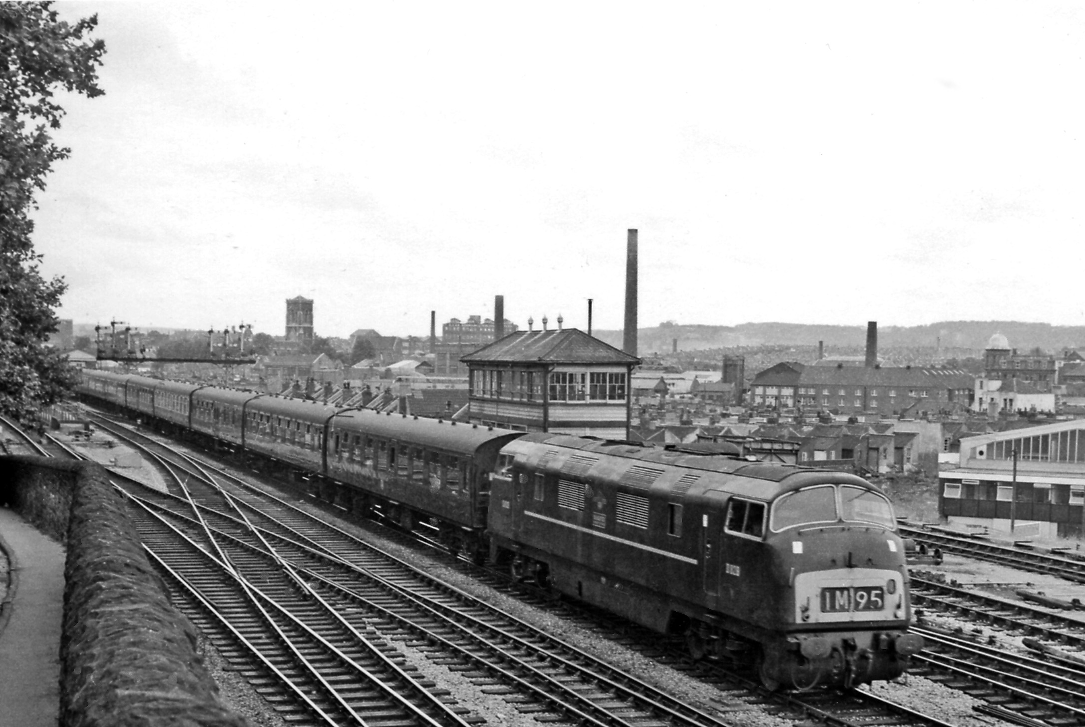 Up Diesel-hauled West-North express passing Bedminster. View westward at Bedminster Box, towards Bedminster station, Weston-super-Mare, Taunton, Exeter etc.; ex-GWR Bristol - Exeter main line. The 11.00 Plymouth/Paignton - Manchester Piccadilly has 'Warship' Type 4 2,200 hp Diesel-Hydraulic B-B No. D829 'Magpie'.